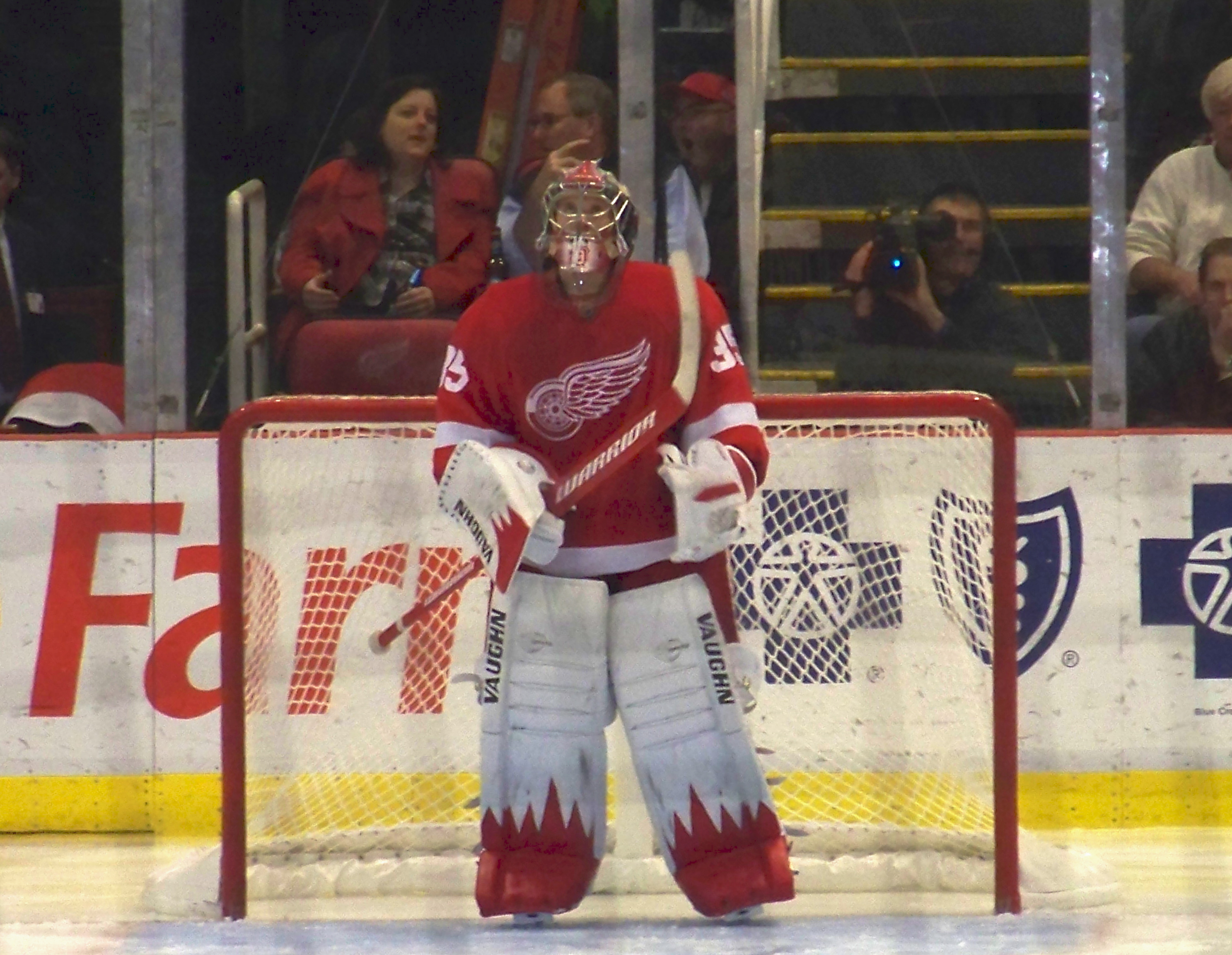 Jimmy Howard of the Detroit Red Wings during a game against the Vancouver Canucks